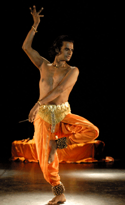 photo spectacle bharata natyam